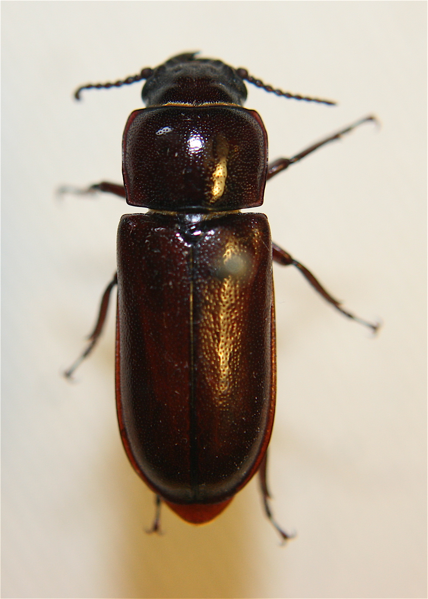 A Neandra brunnea (Longhorned Beetle) in my personal collection. 20mm - Body Length Collection Data July 1st, 2008 Fort Custer, Augusta, Michigan, United States of America